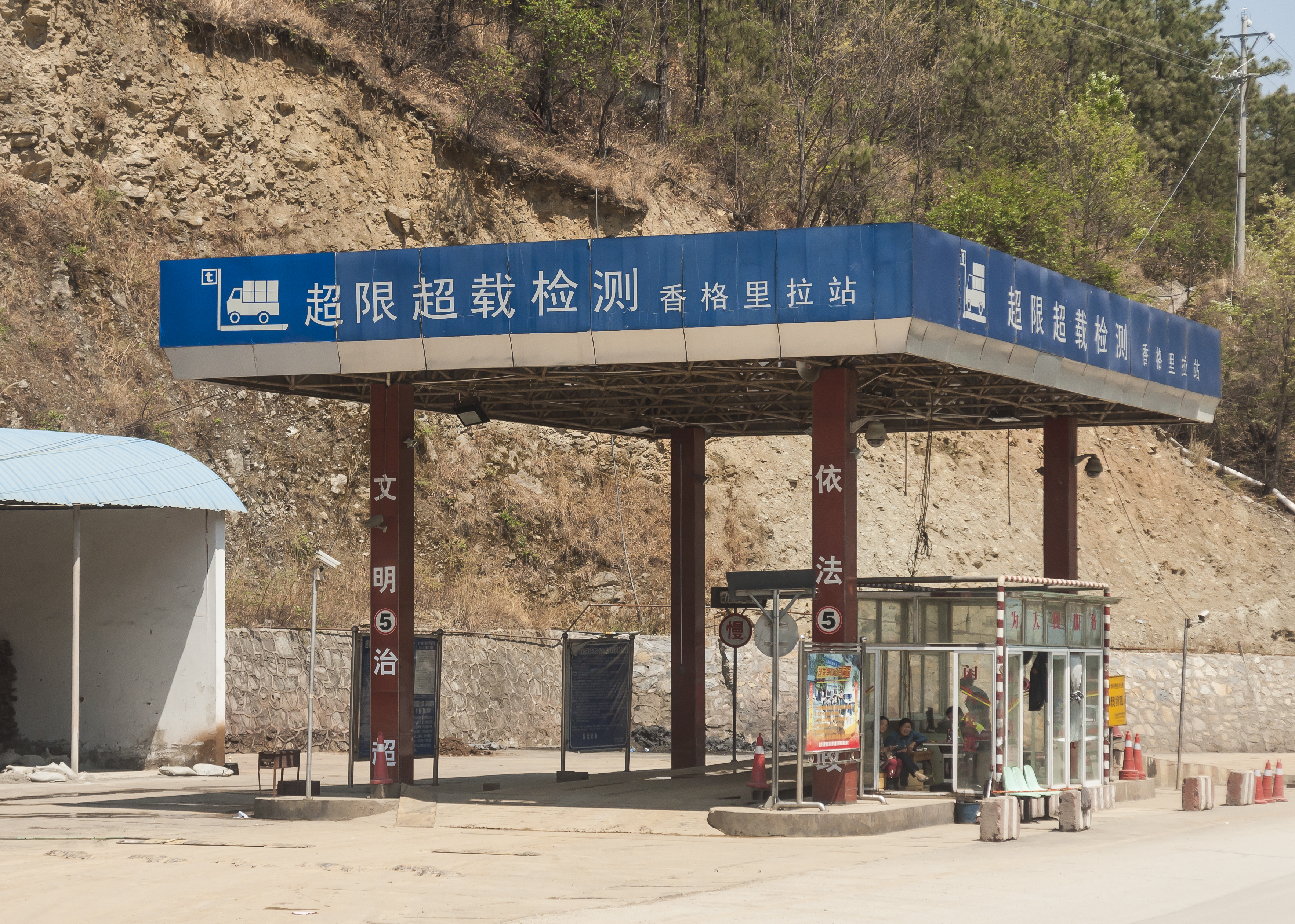 Yunnan, China: Weightbridge at the left side of Jinsha River between Shangsongyuan Bridge and Shangsongyuan